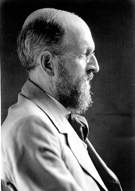 Picture of the English American naturalist Theodore Dru Alison Cockerell (1866-1948).